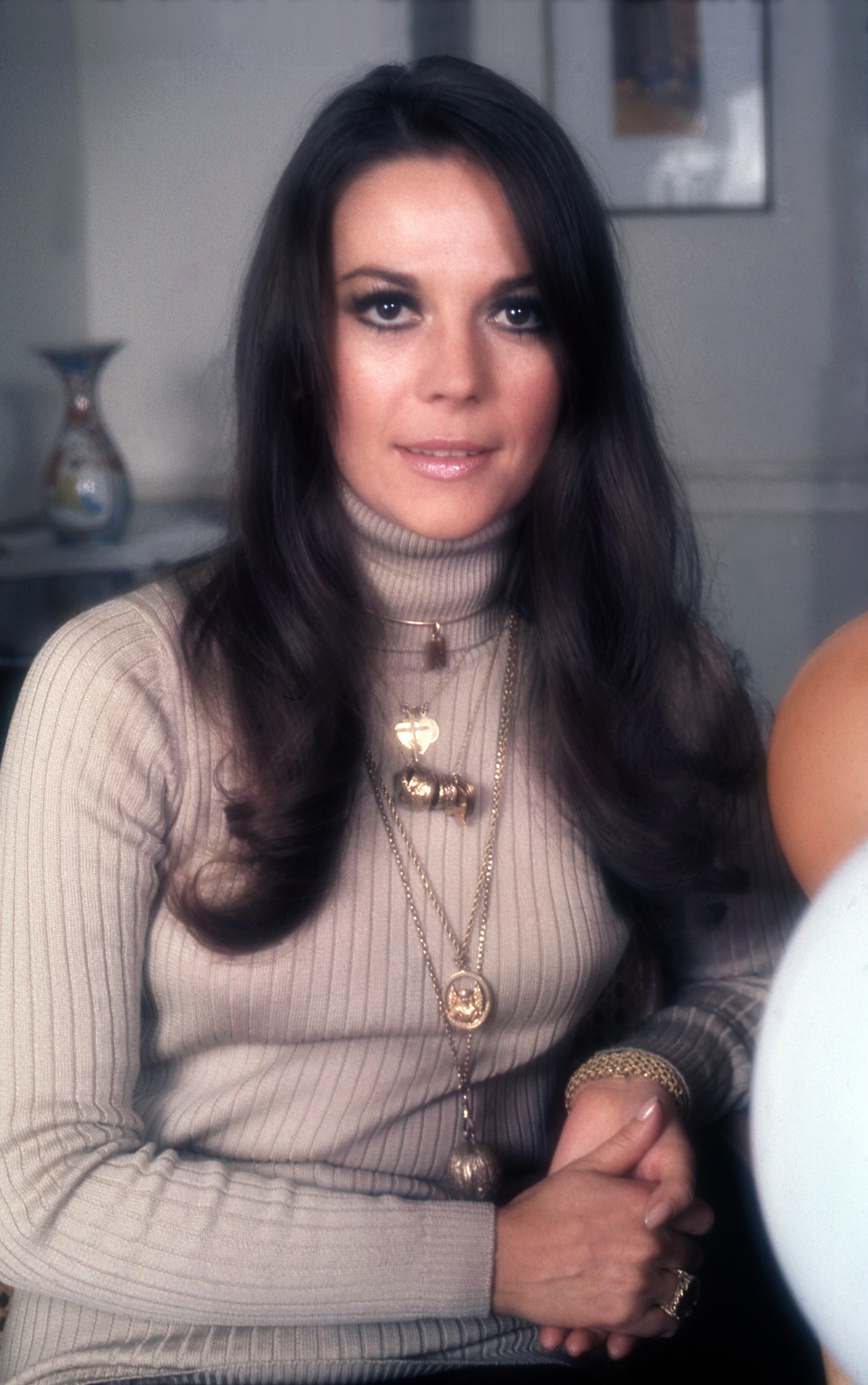 Natalie Wood